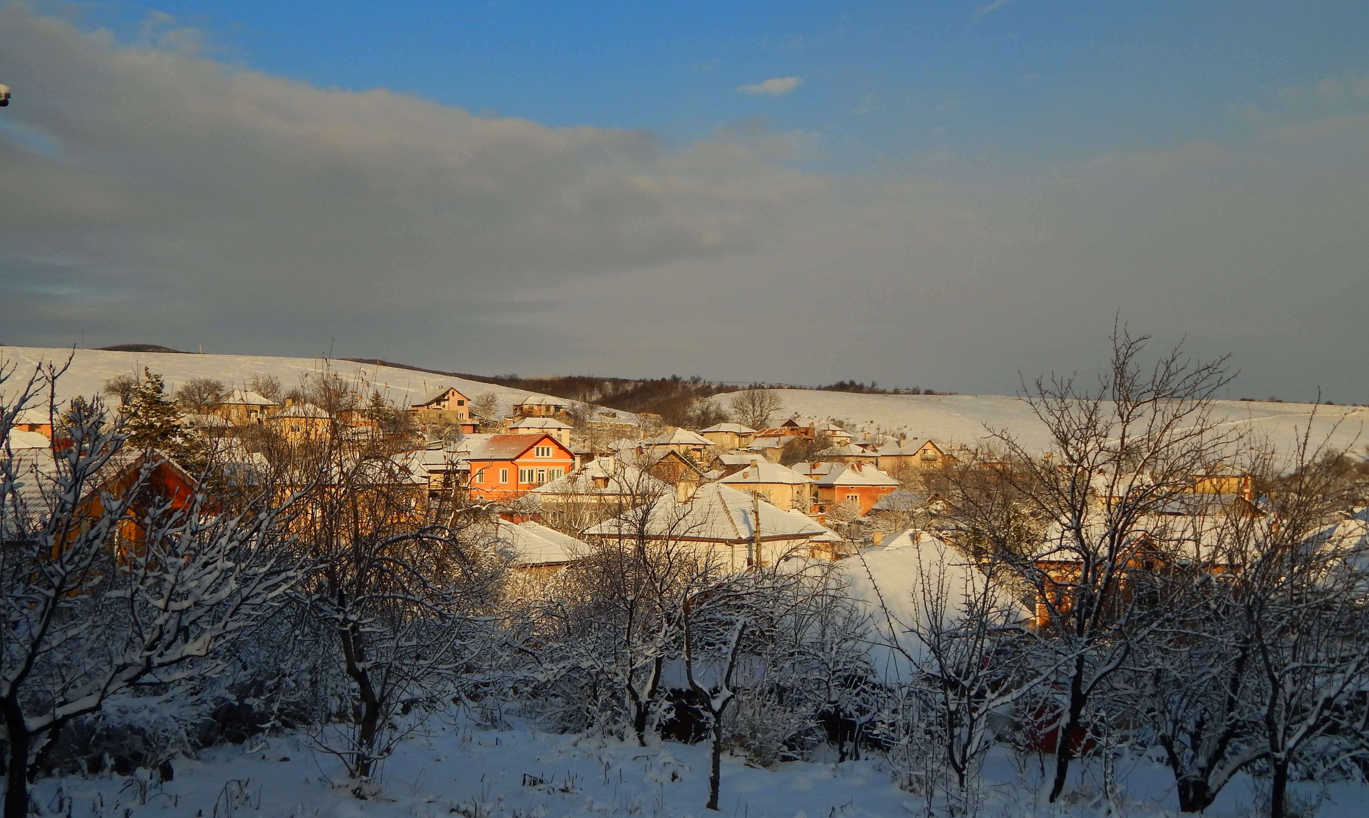 Winter in village Varbeshnitsa, Vrachanski Balkan Nature Park, Bulgaria